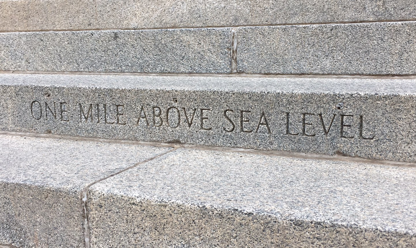 Colorado State Capitol Building's west entrance step 15th